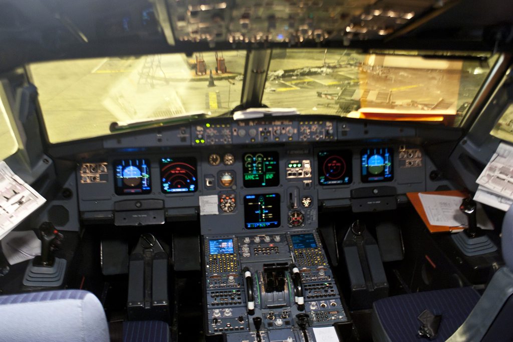 Cockpit of Airbus A320-211 Air France (F-GFKH)